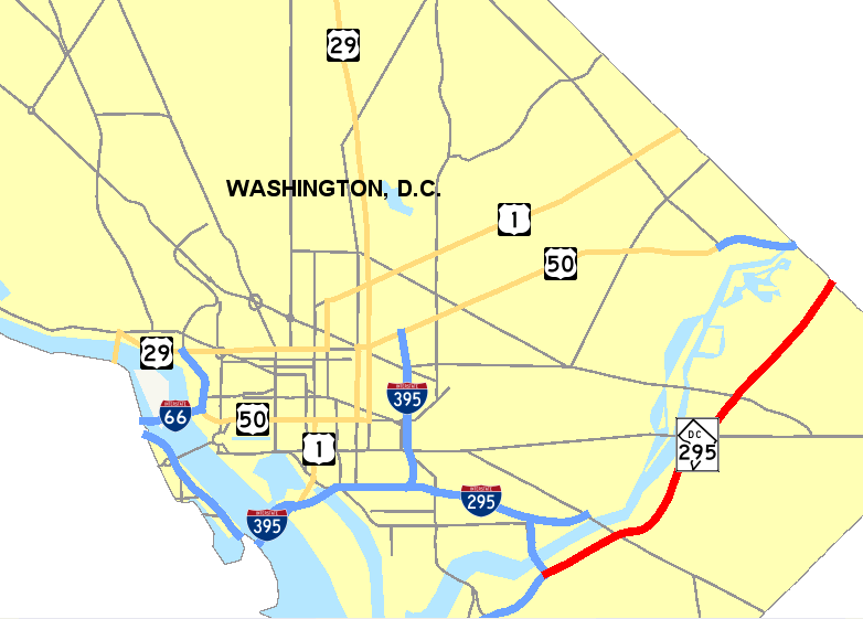 Map of District of Columbia Route 295.